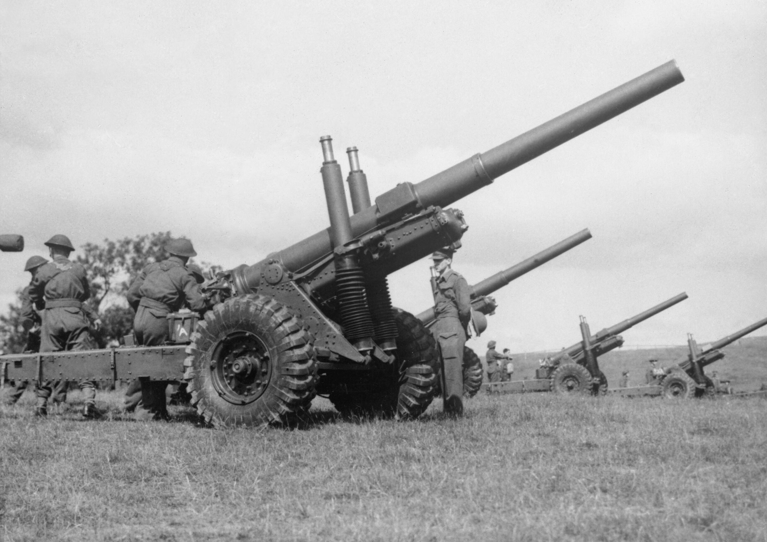 The British Army in the United Kingdom 1939-45 5.5-inch guns of 240th Battery, 51st Medium Regiment, Royal Artillery, at Ellesmere Port in Cheshire, 7 July 1941.